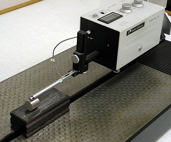 Contact profilometer Surtonic 3P (Rank Taylor Hobson)